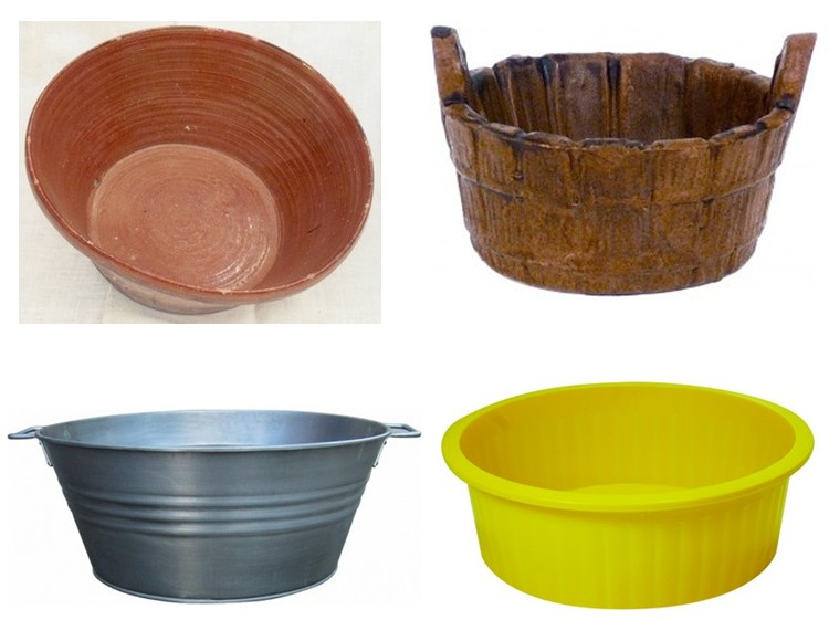 tipes of bucket (container) by materials